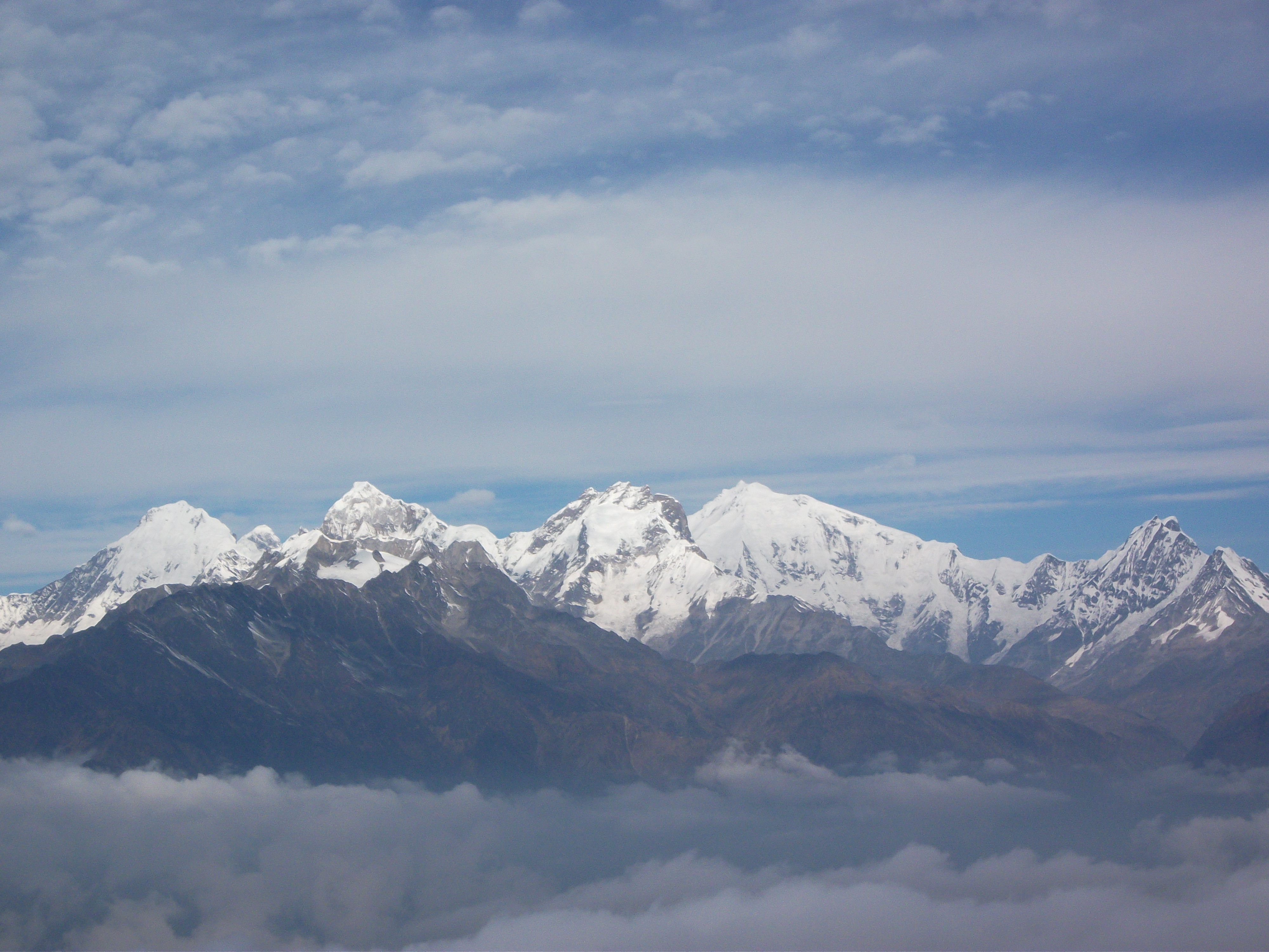 Langtang